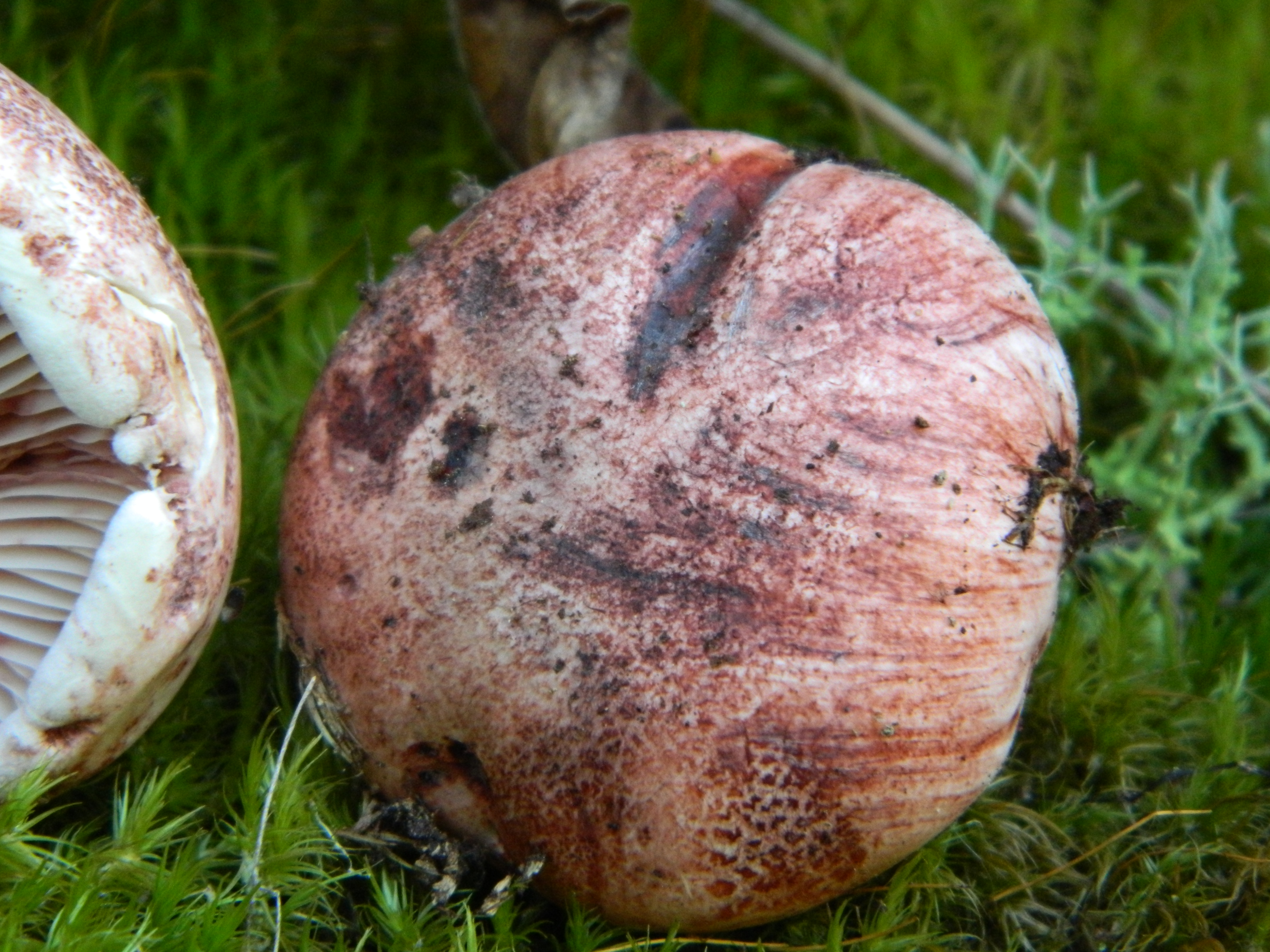 Hygrophorus russula (Schaeff.) Kauffman